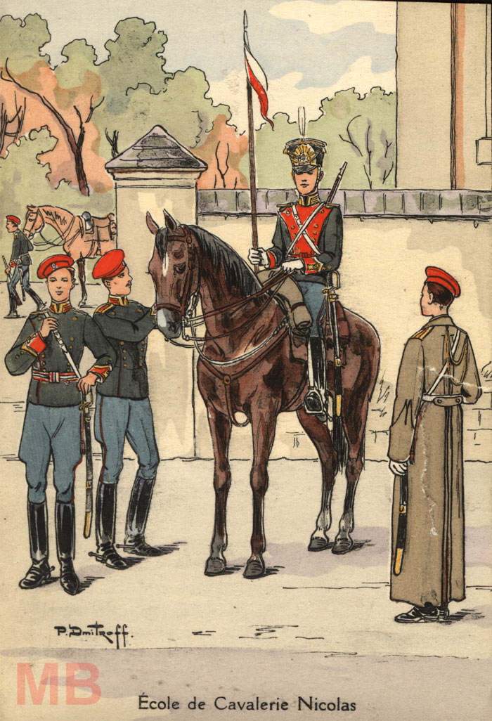 Cavalry School Nicolas (Russia)